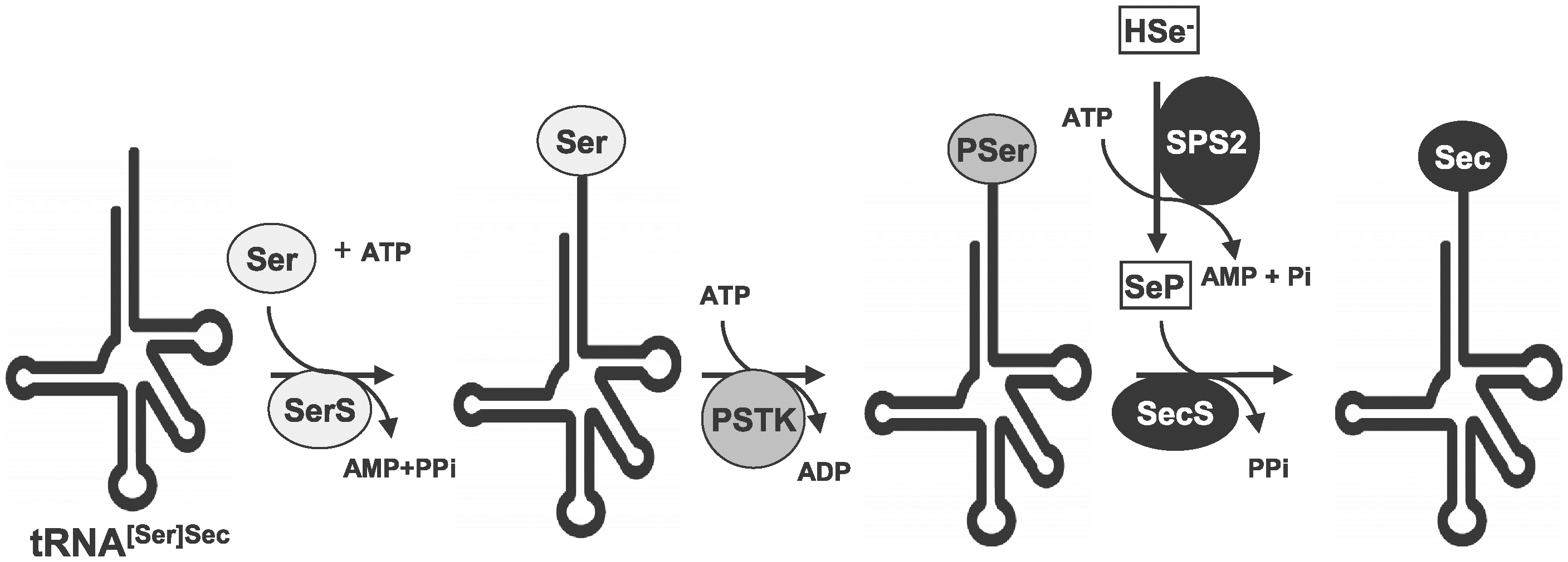 Selenocysteine (Sec) Biosynthesis in Eukaryotes